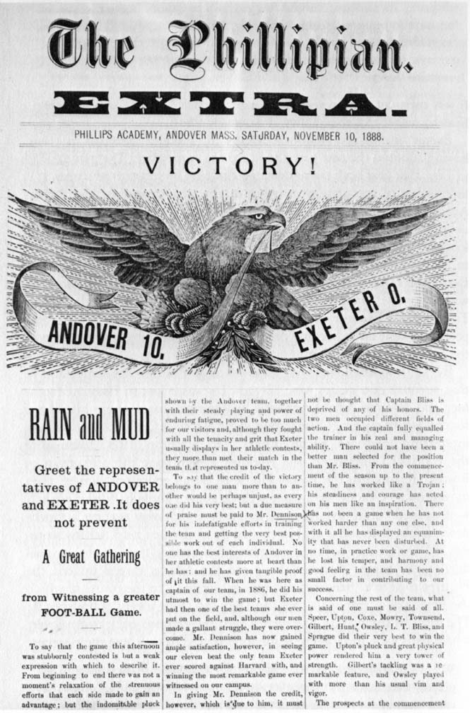 Early image of the Phillipian (Andover student newspaper). It chronicles the sports rivalry between Andover and Exeter.